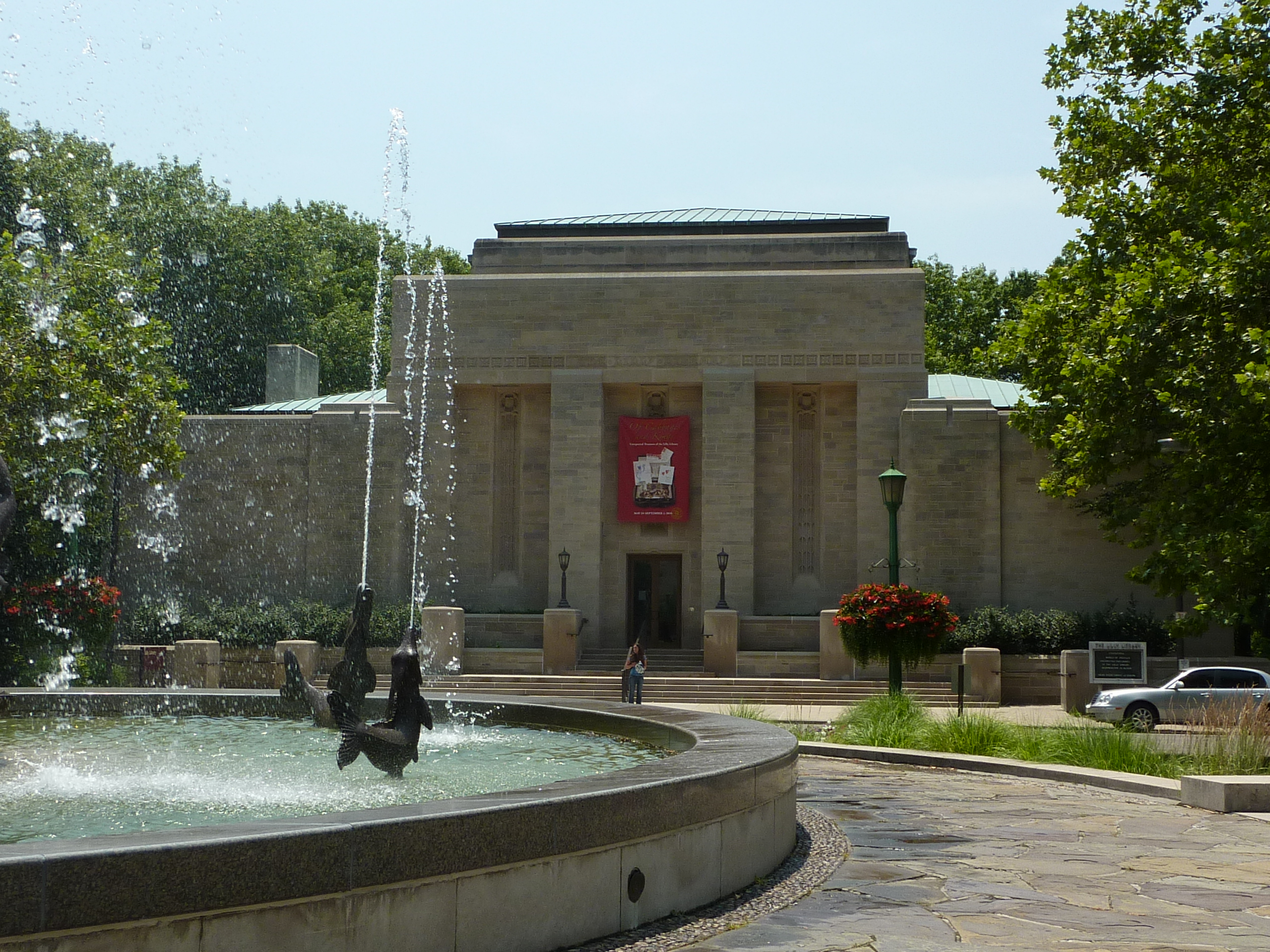 Lilly Library, the rare book library at Indiana University Bloomington. The fountain in front of it is the Showalter Fountain